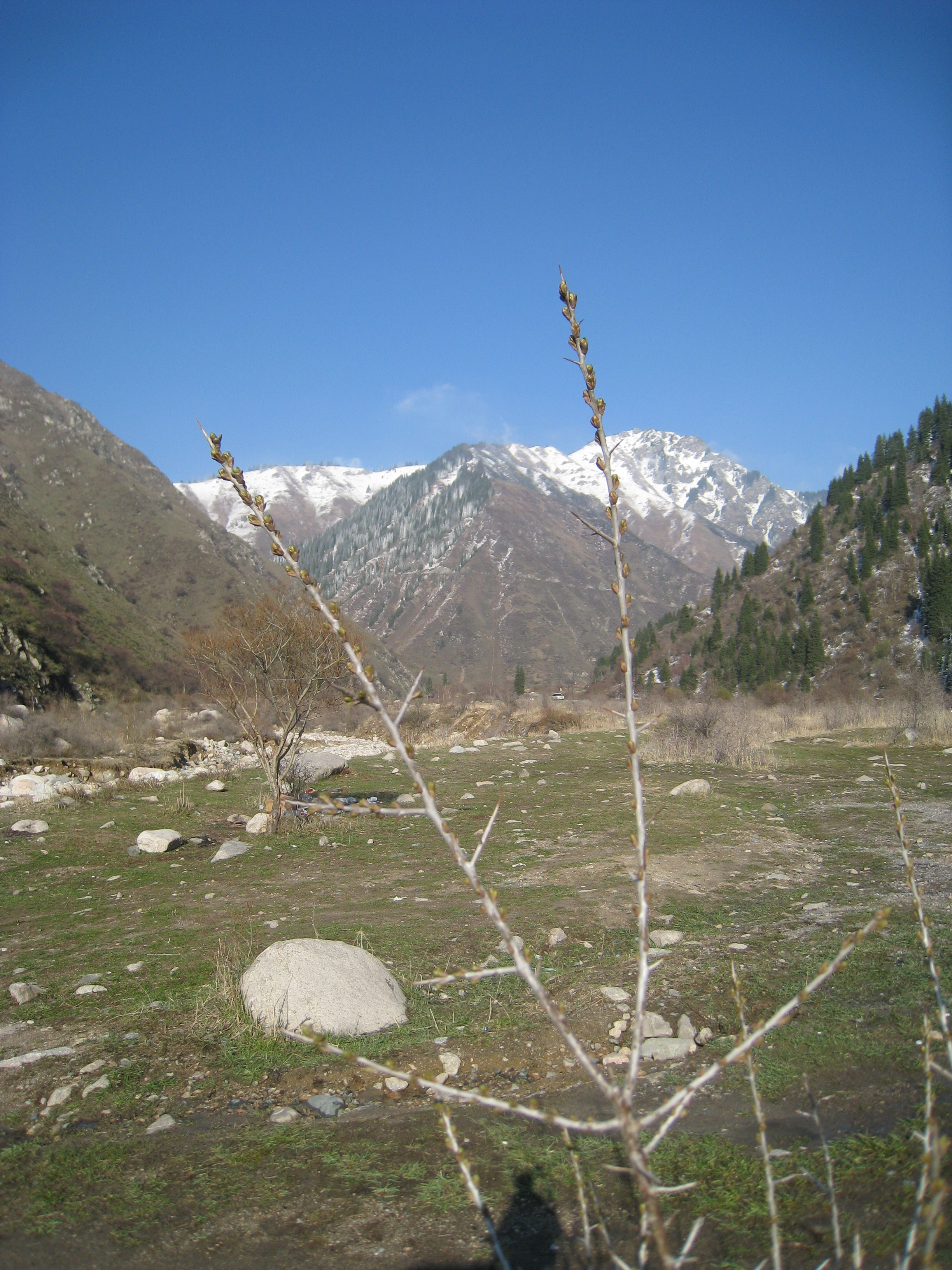 Almaty Region in Moountains, Spring